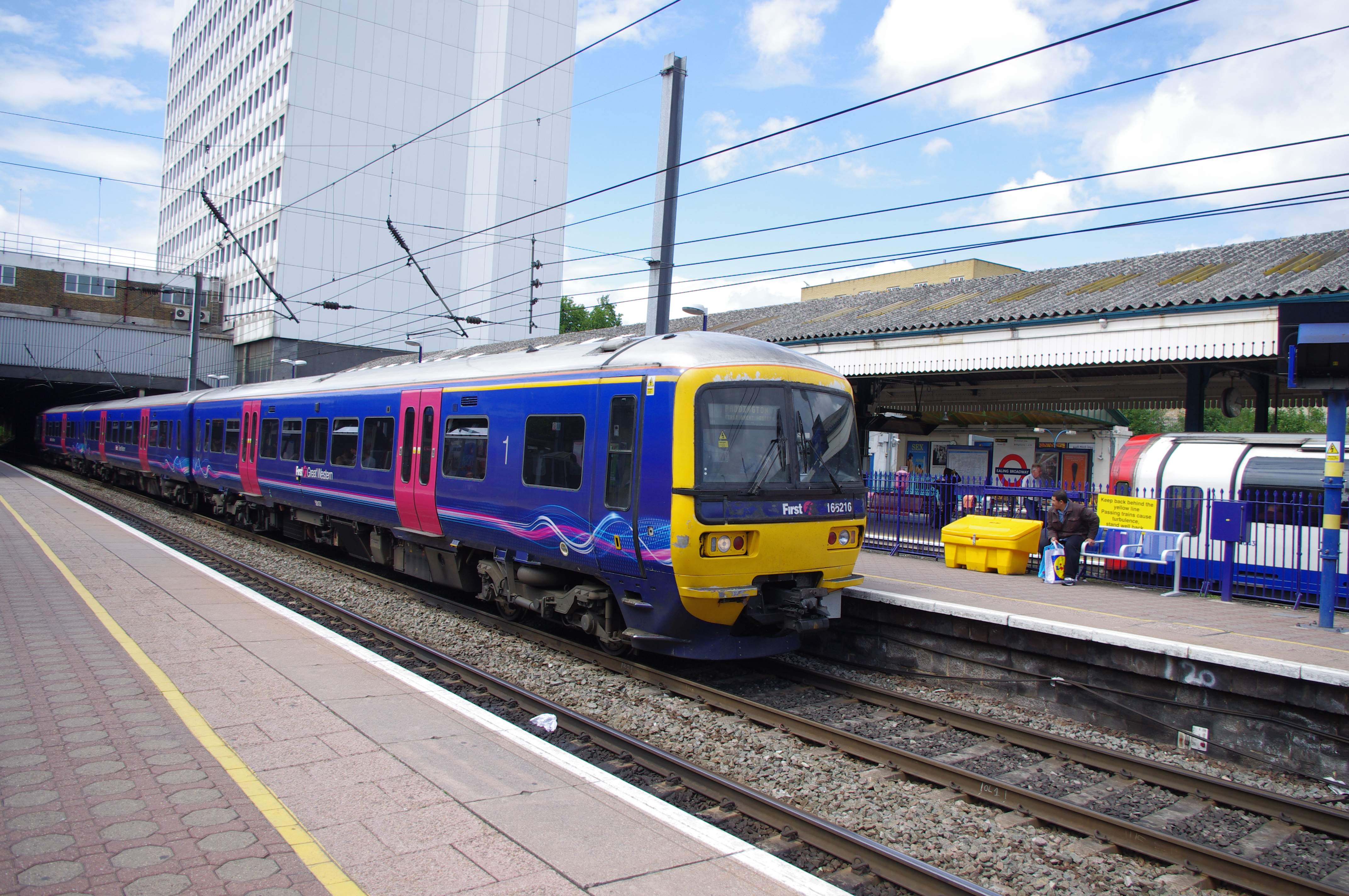 2P48 11:37 Oxford to London Paddington.